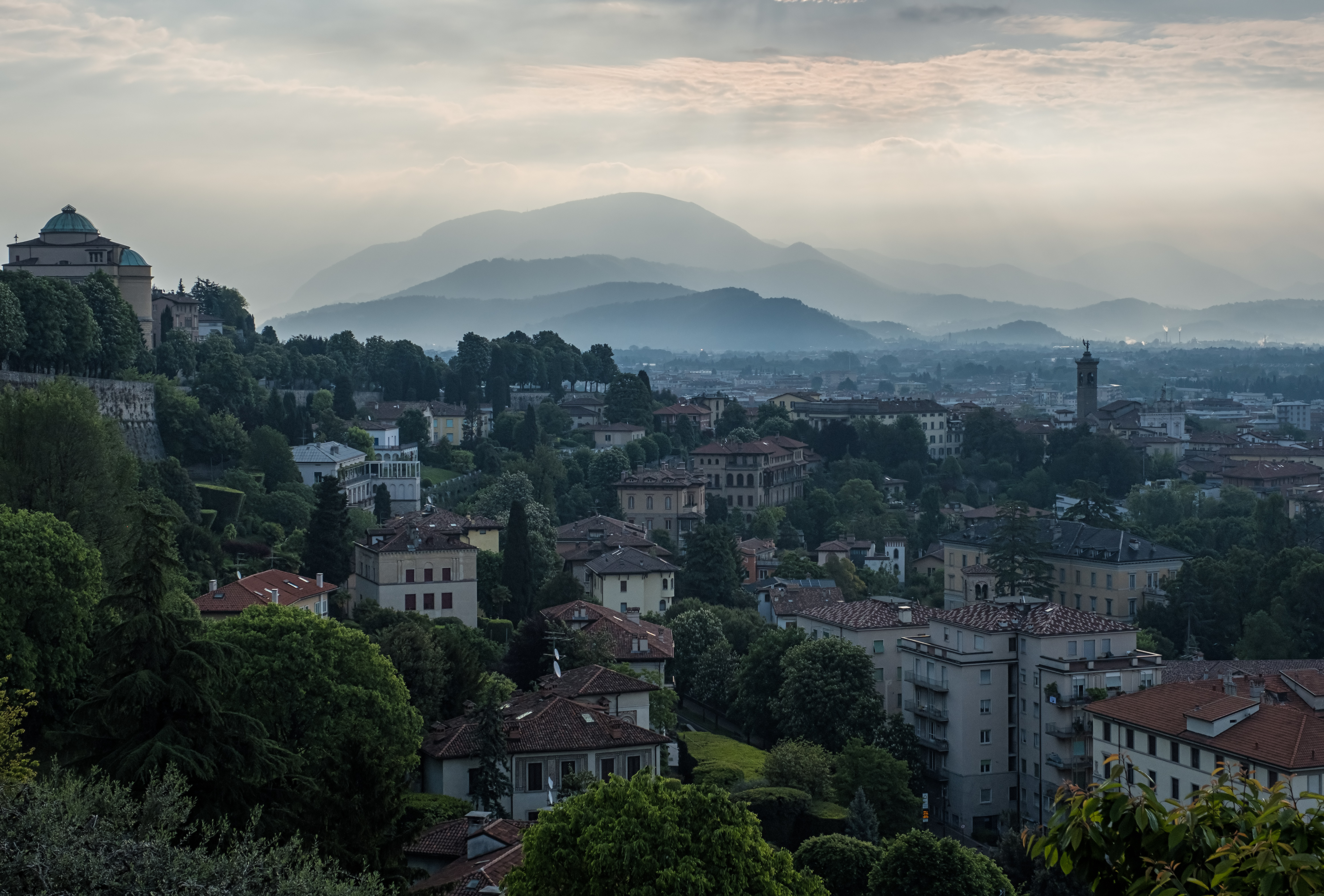 The morning in Bergamo, view from St. Giacomo's Gate on the city and park.